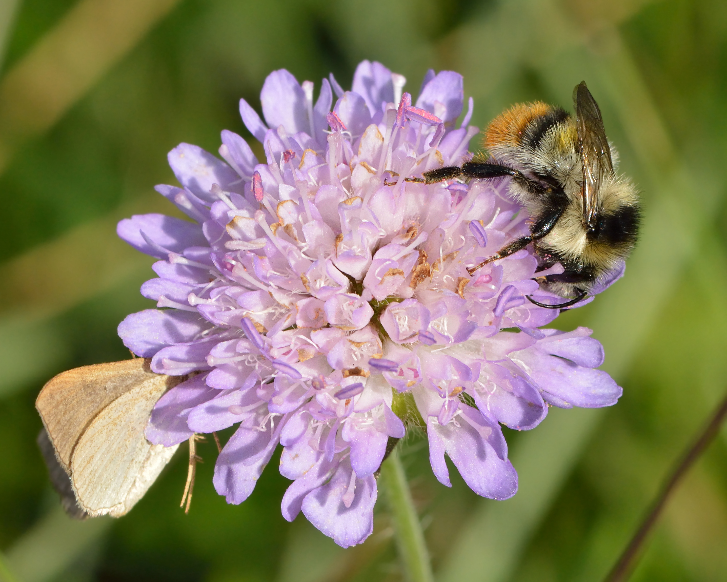 Male shrill carder bee (Bombus Sylvarum) on the field scabious (Knautia arvensis). Keila, Northwestern Estonia.